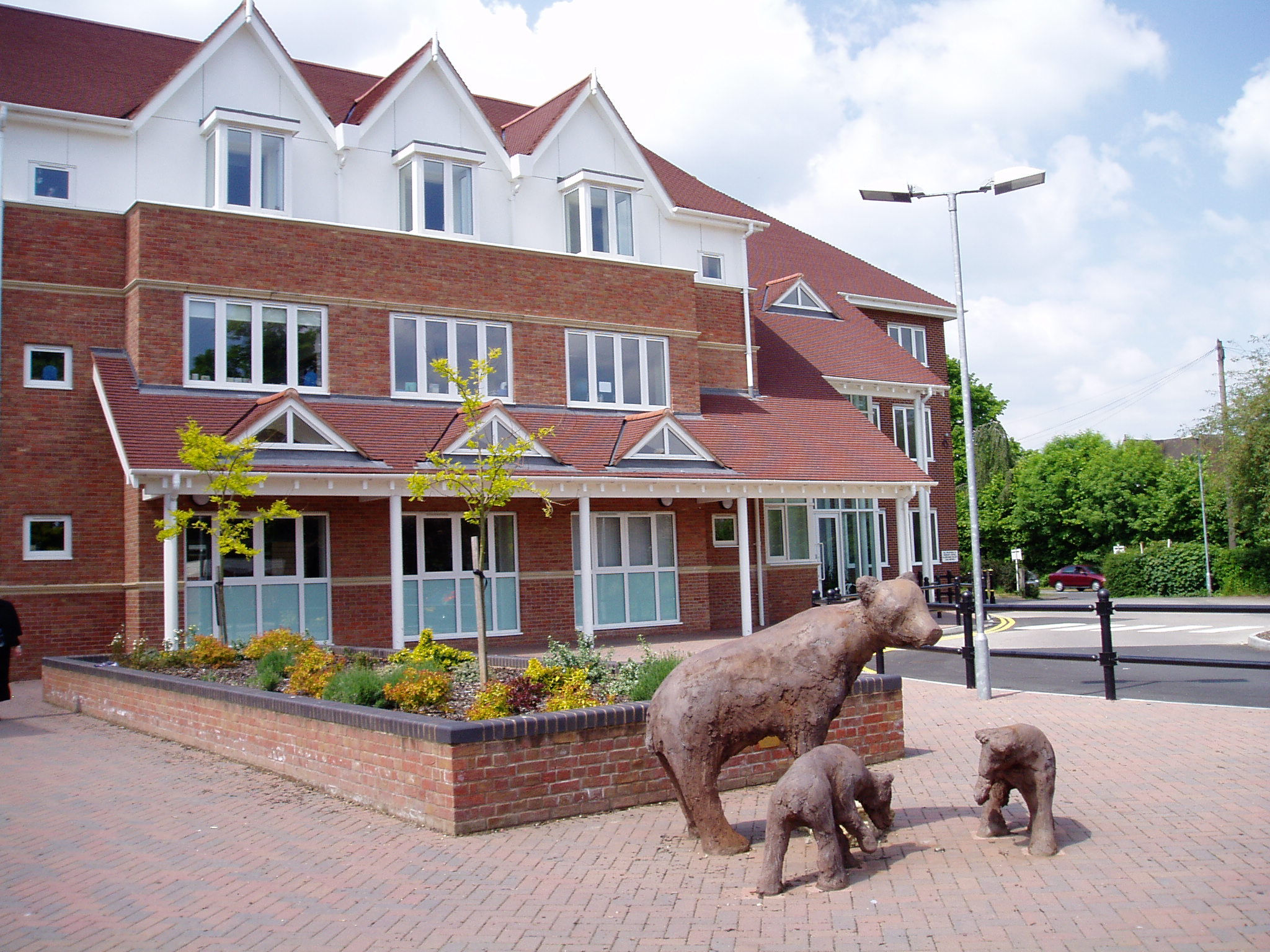 G N Frykman, private photograph Commons:Category:Schools in England